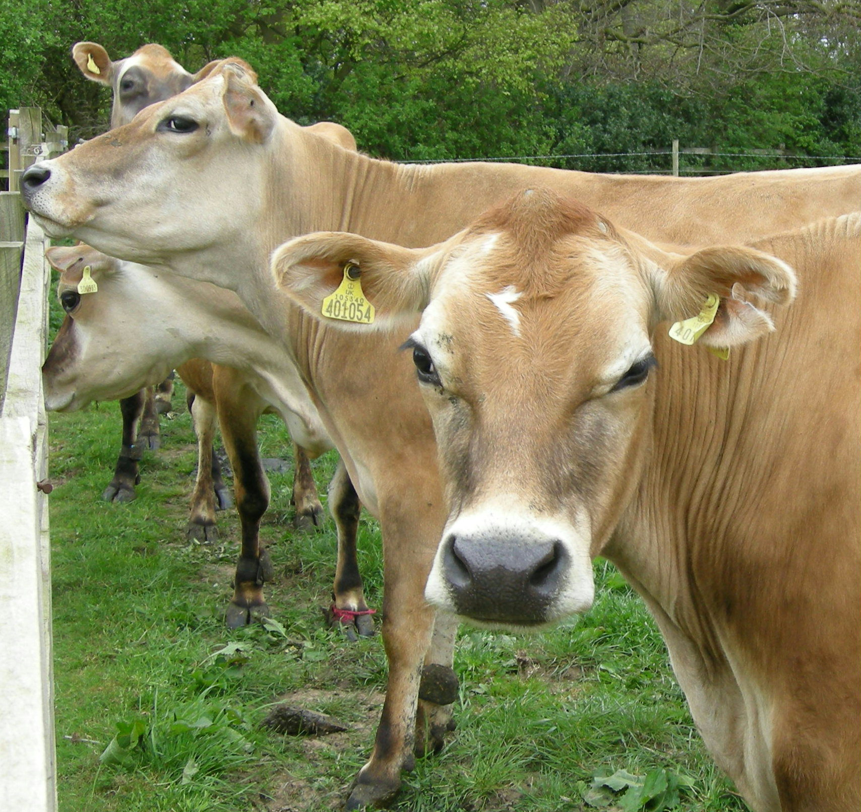 Jersey herd at New Moor Farm, Walworth Gate, County Durham, England, May 2010.